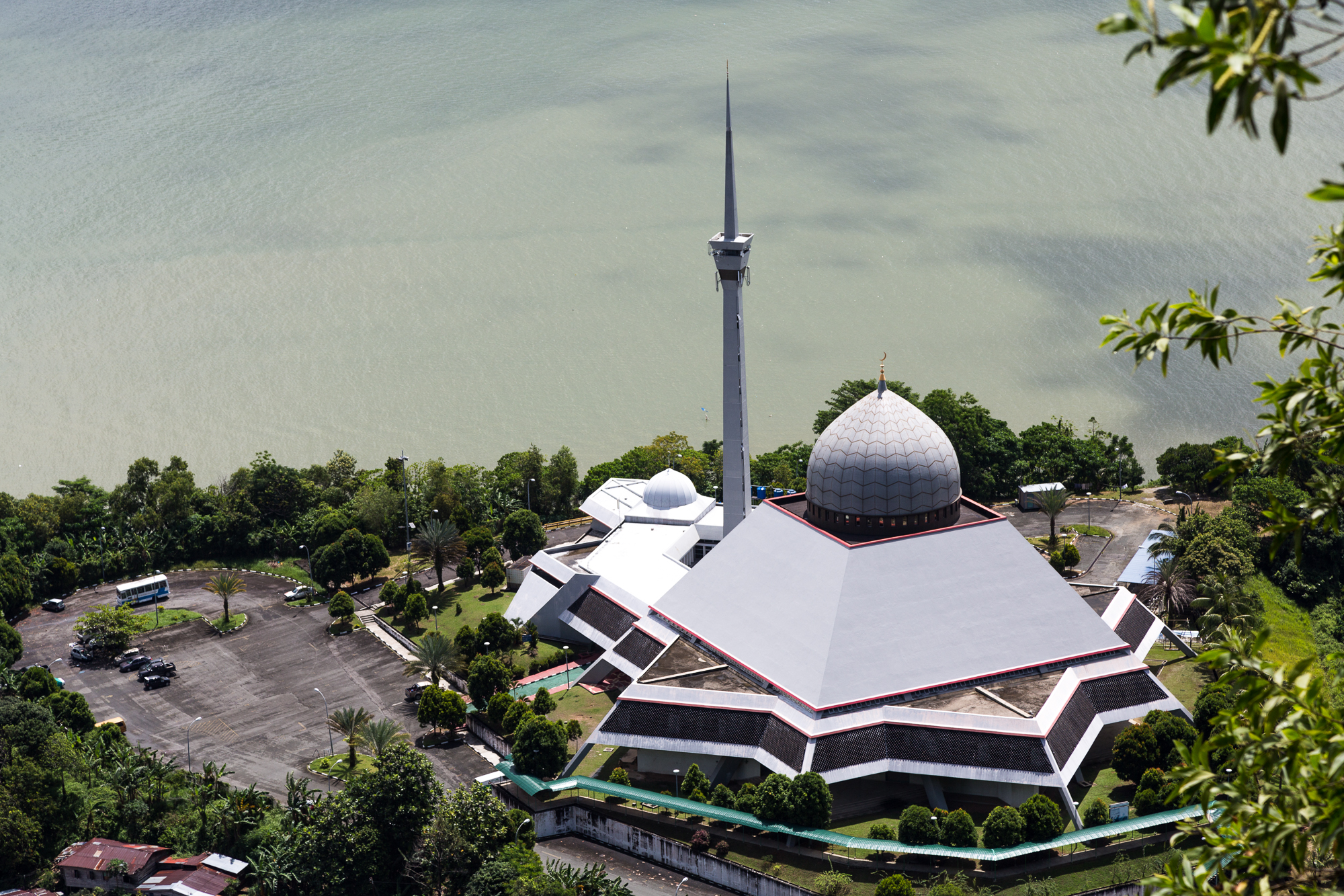 Sandakan, Sabah: Sim-Sim City Mosque